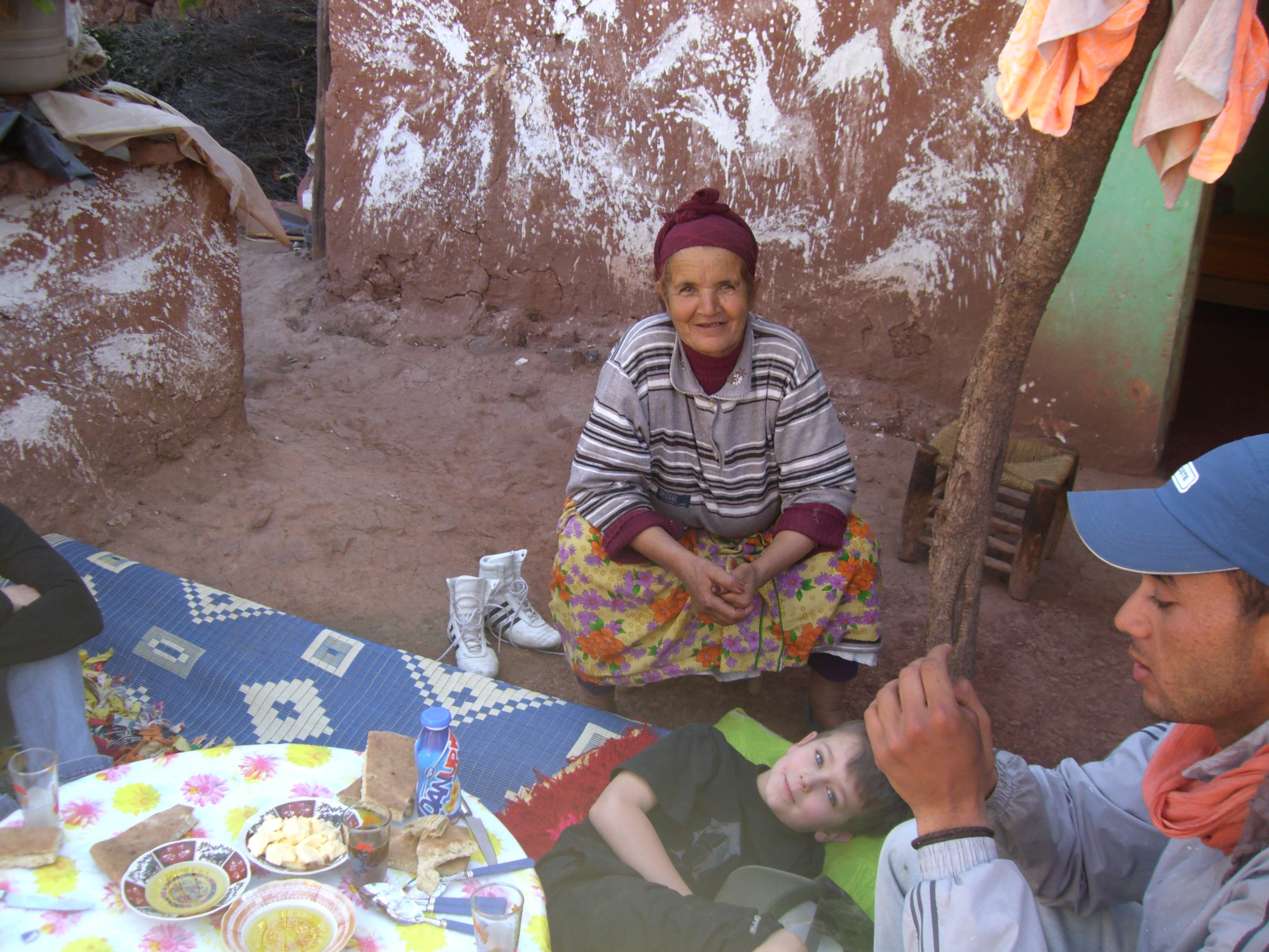 Berber family drinking tea, Atlas Mountains, near Marrakech